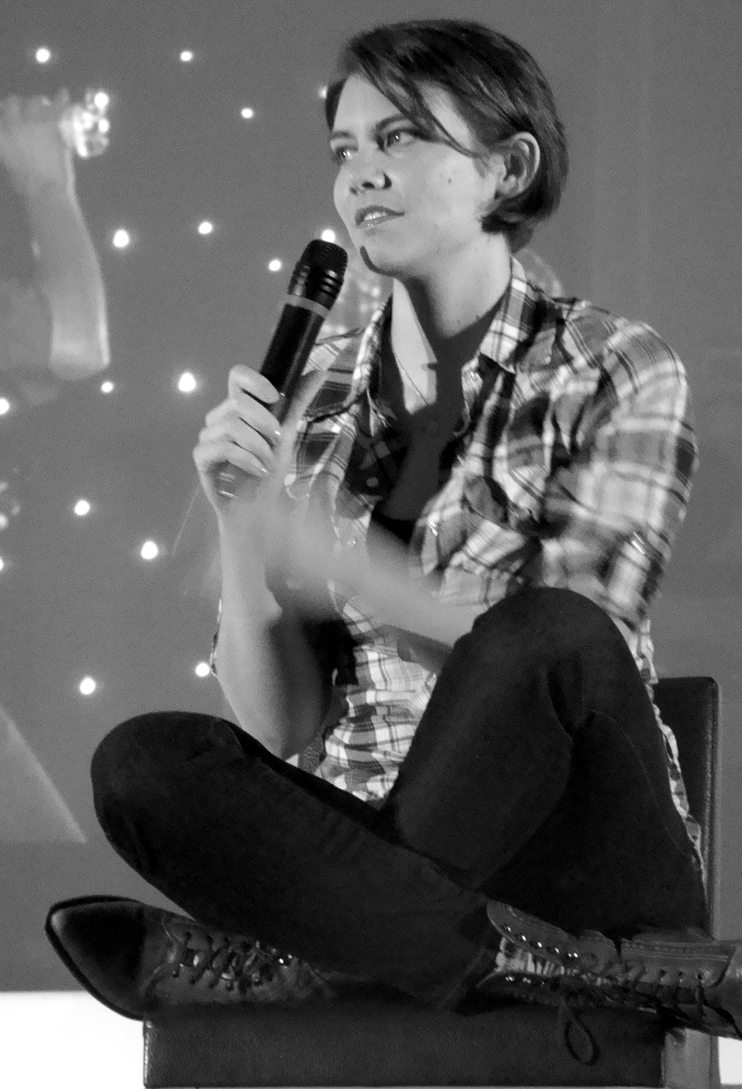 Actress Lauren Cohan at the Rogue Events: Insurgence 3, 2011.